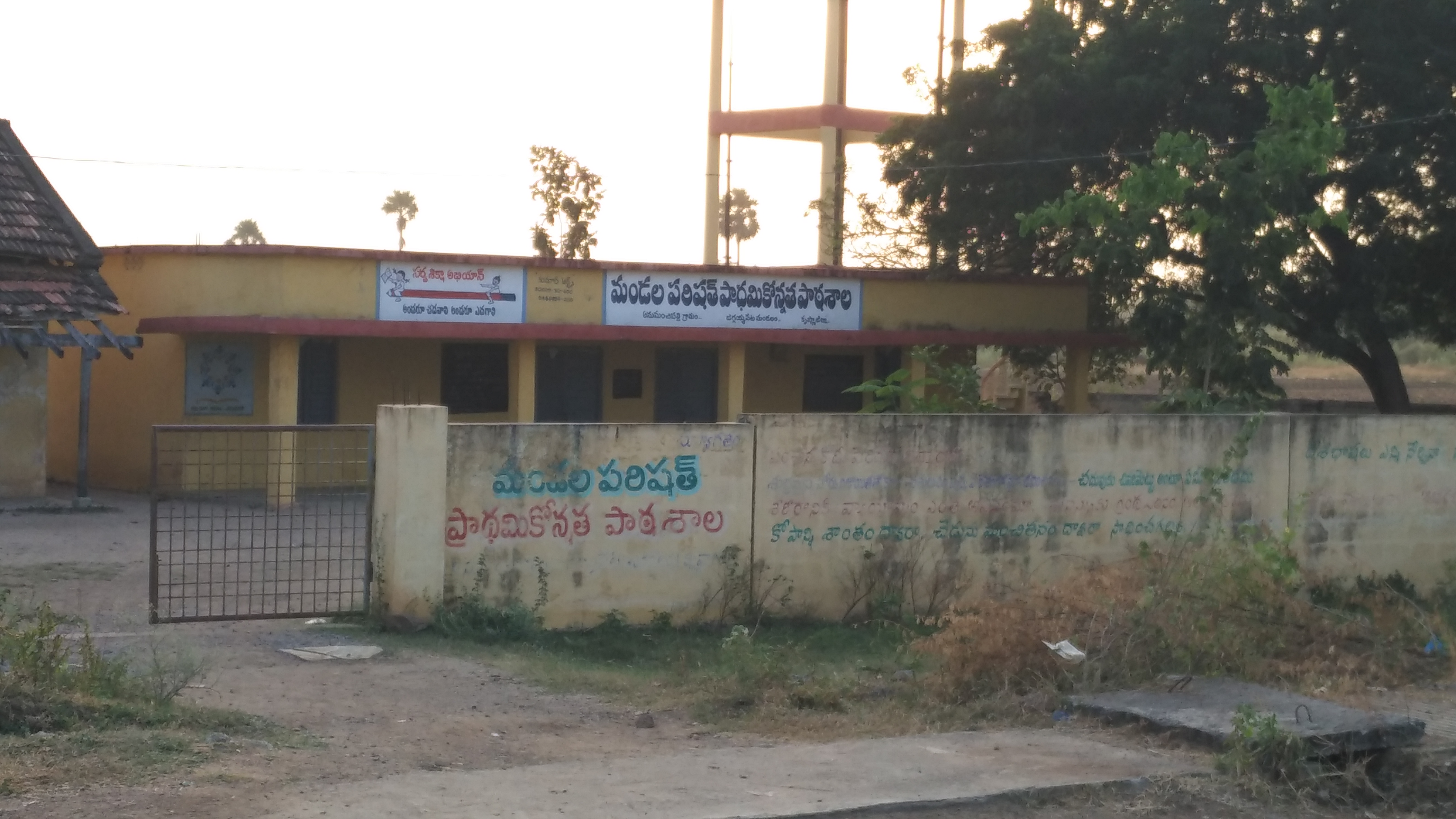 MPUP School in Anumanchi palli Village, Jaggayyapeta Mandal in Krishna District